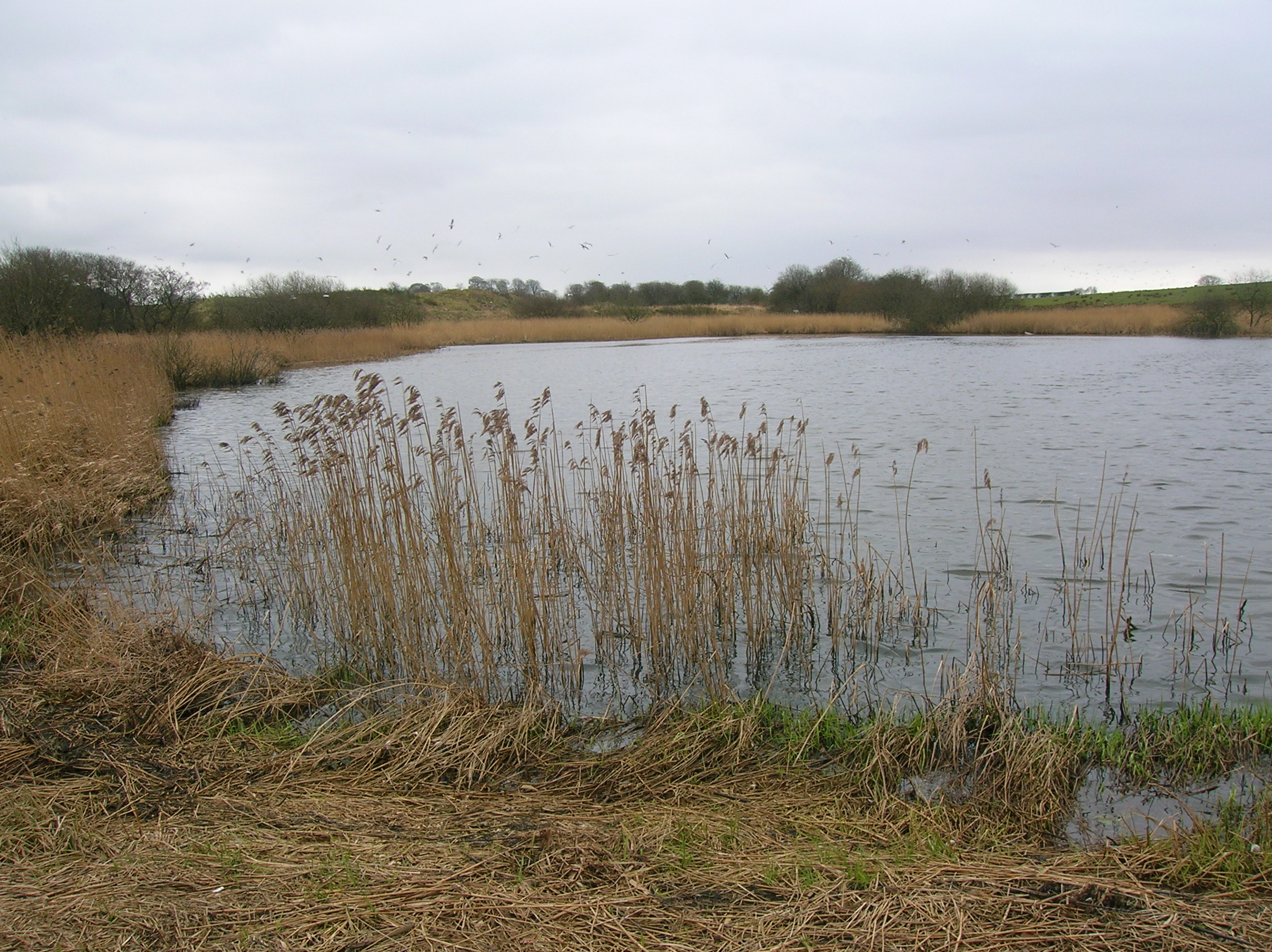 The Blae Loch's eastern bank looking south. Hessilhead, Beith, North Ayrshire, Scotland.